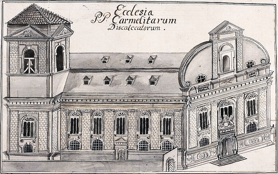 Karmeliterkirche Heidelberg